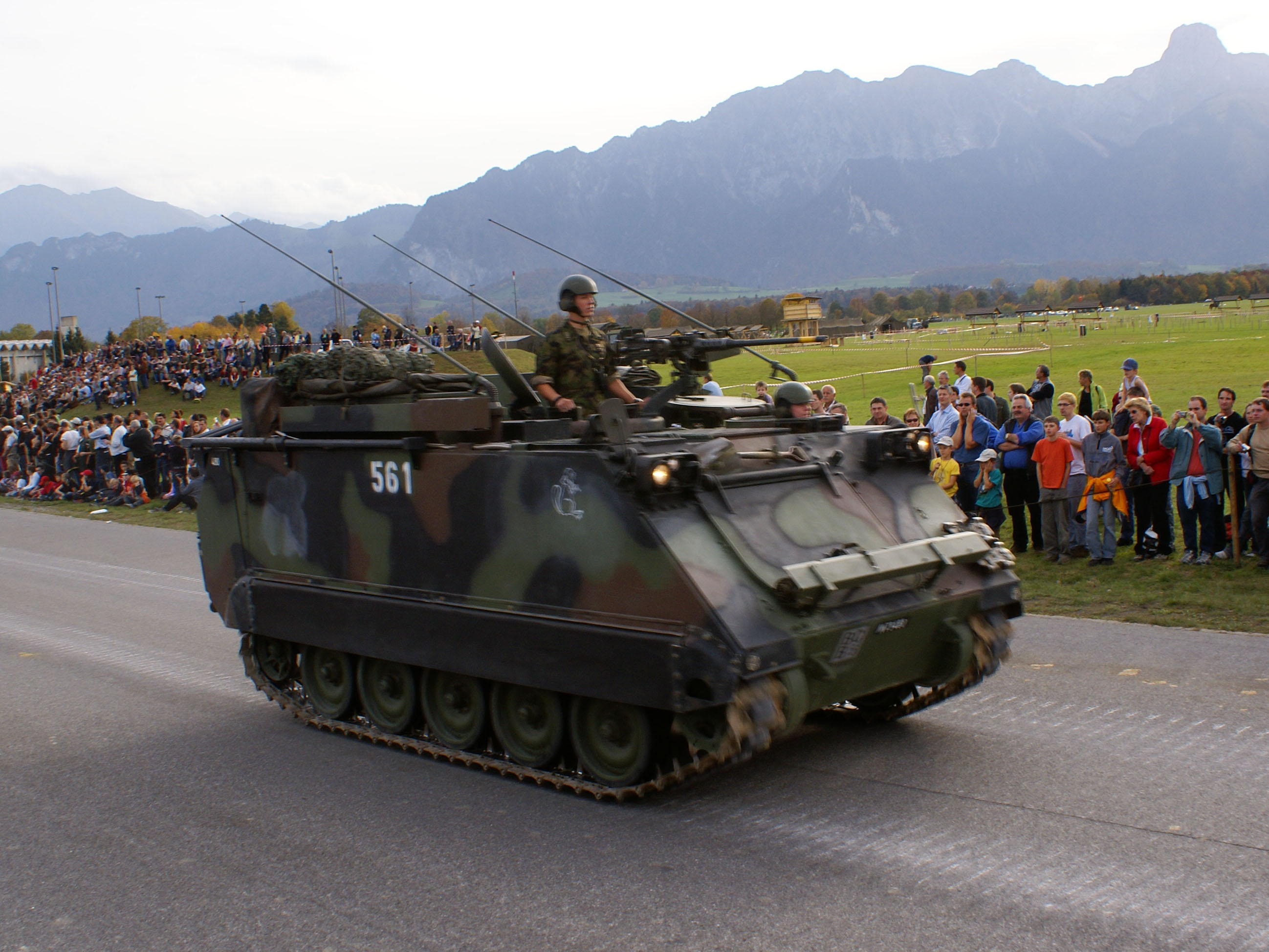 Swiss Army. M113 Armored Personnel Carrier, command variant. Participating in the "Steel Parade" of the 2006 Army Days, Thun.